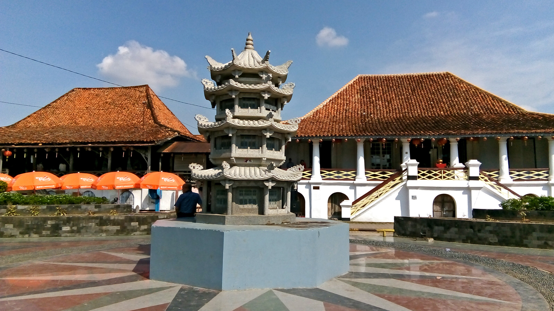 Kampung Kapitan an old chinese village in Palembang, Sumatra Selatan